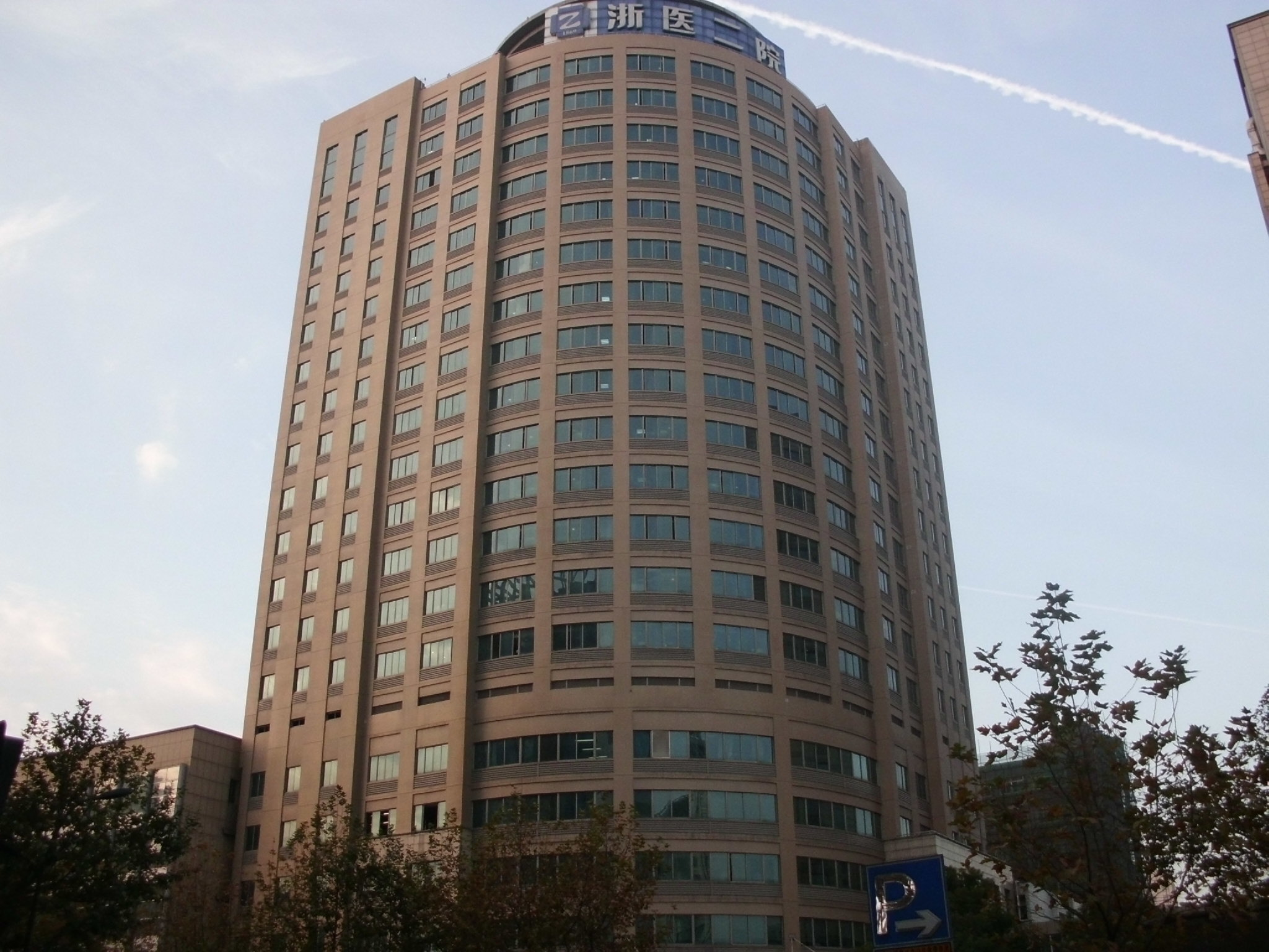 The Second Affiliated Hospital of Zhejiang University School of Medicine